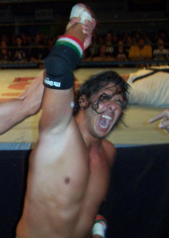 Pic of Tony Mamaluke at the ECW Arena